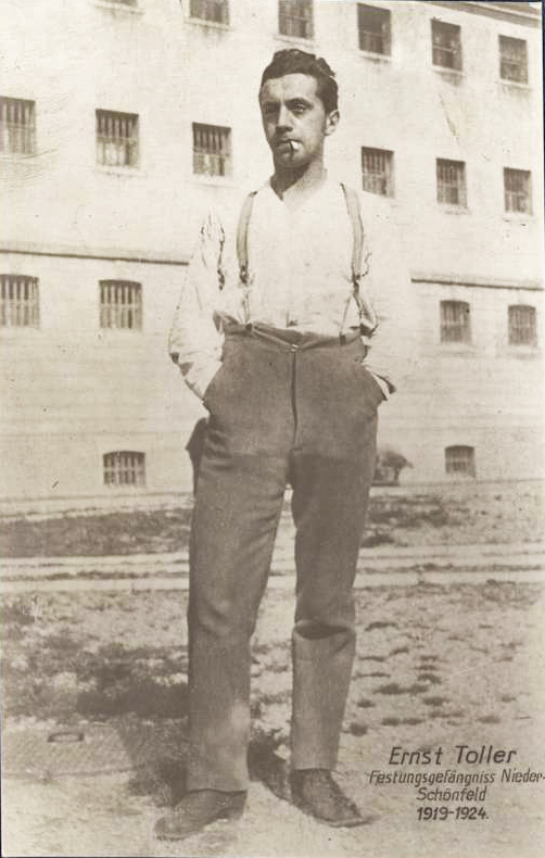 Picture of Ernst Toller